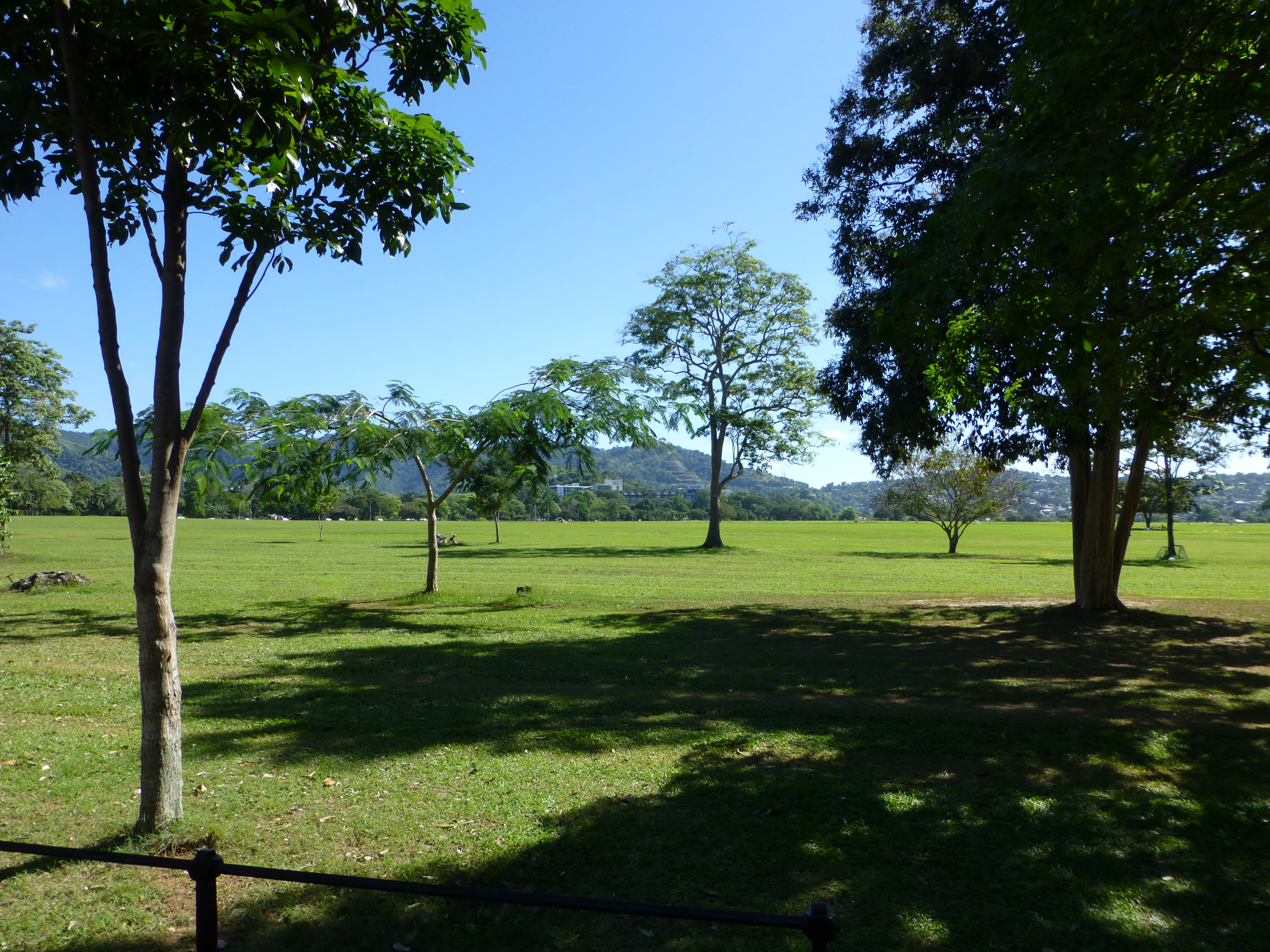 Northern part of the Queen's Park Savannah, Port of Spain, Trinidad and Tobago.